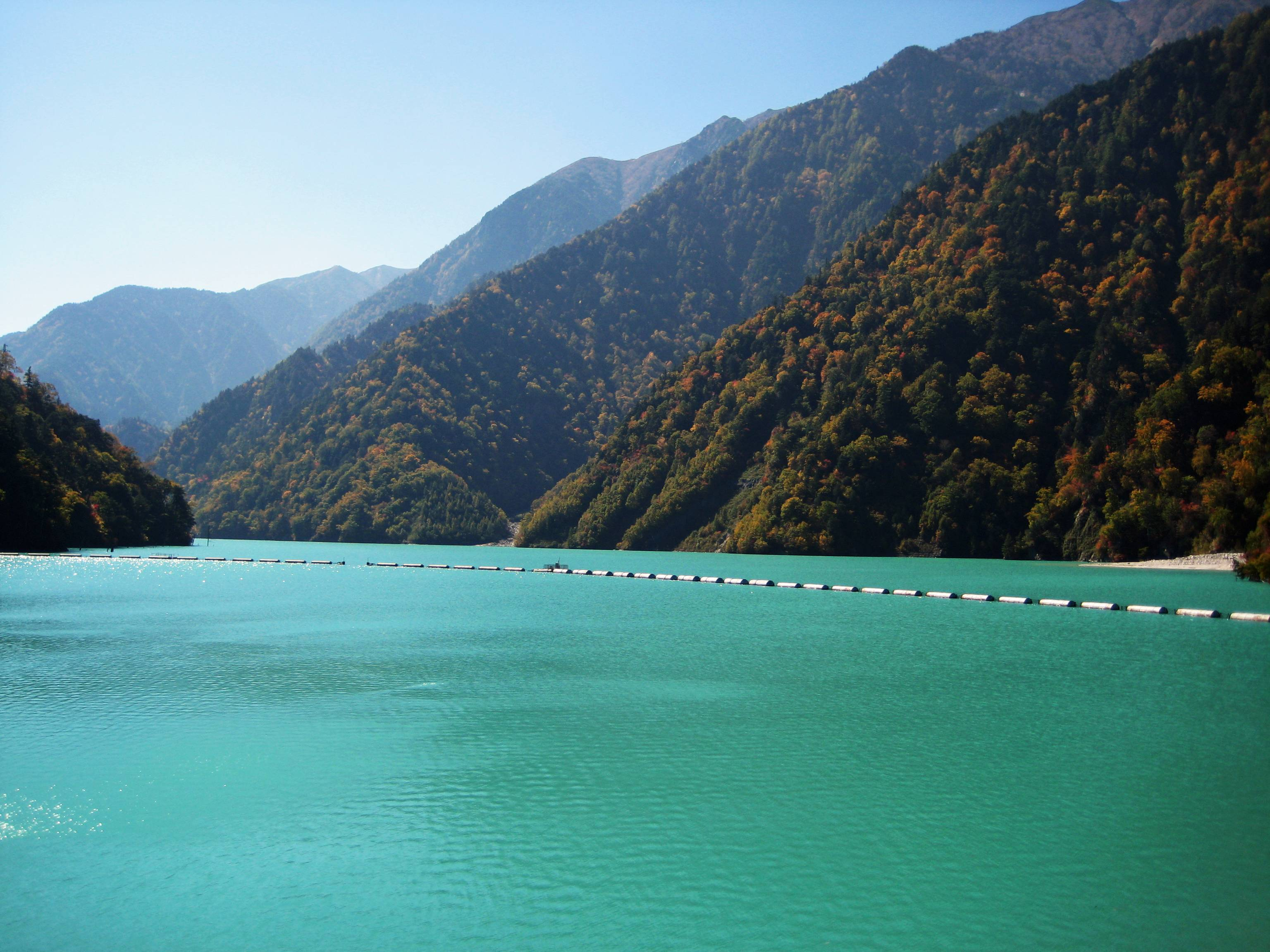 Takase Dam lake.